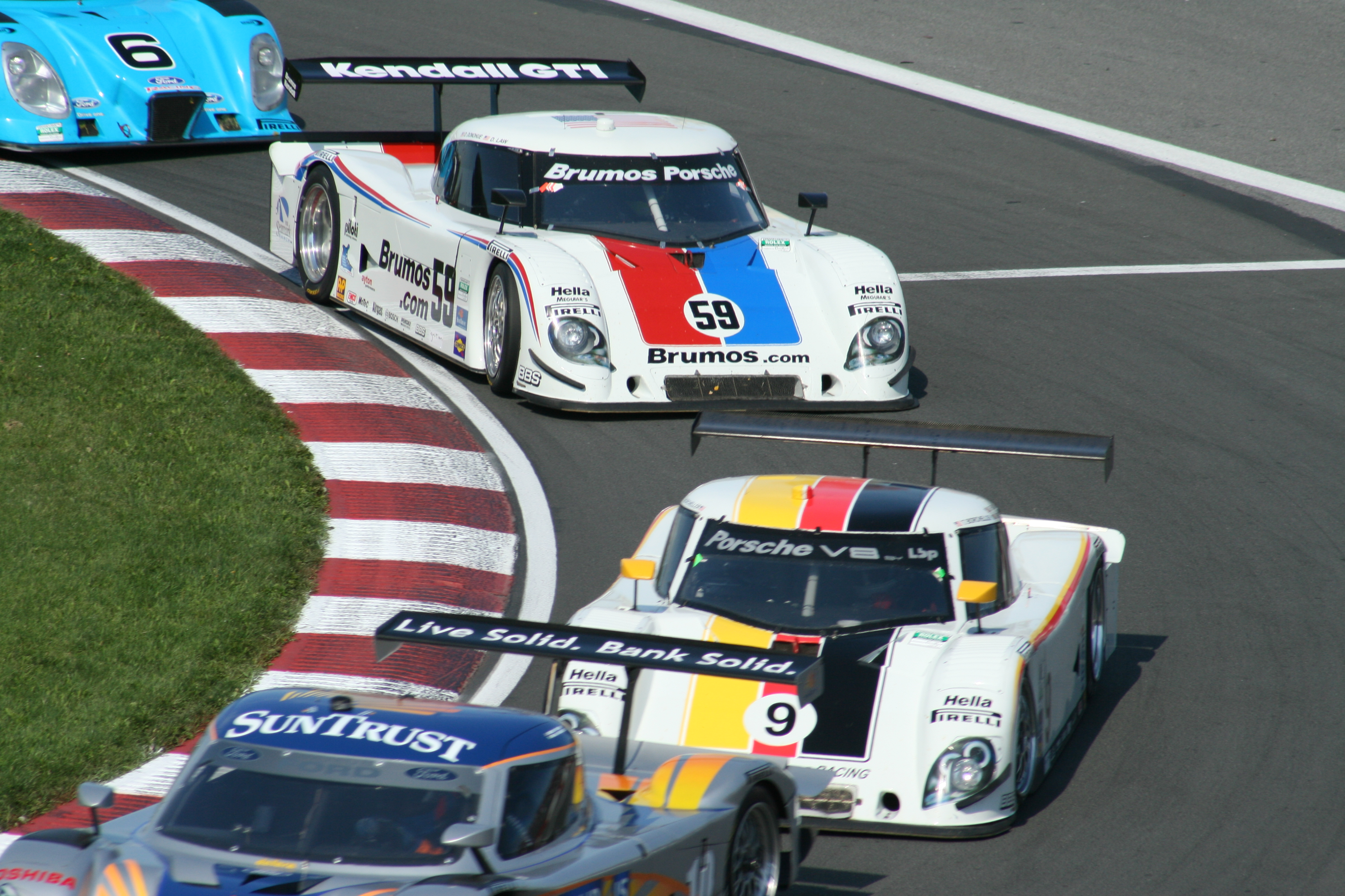 Start of the Montreal 200 in august 28th 2010.